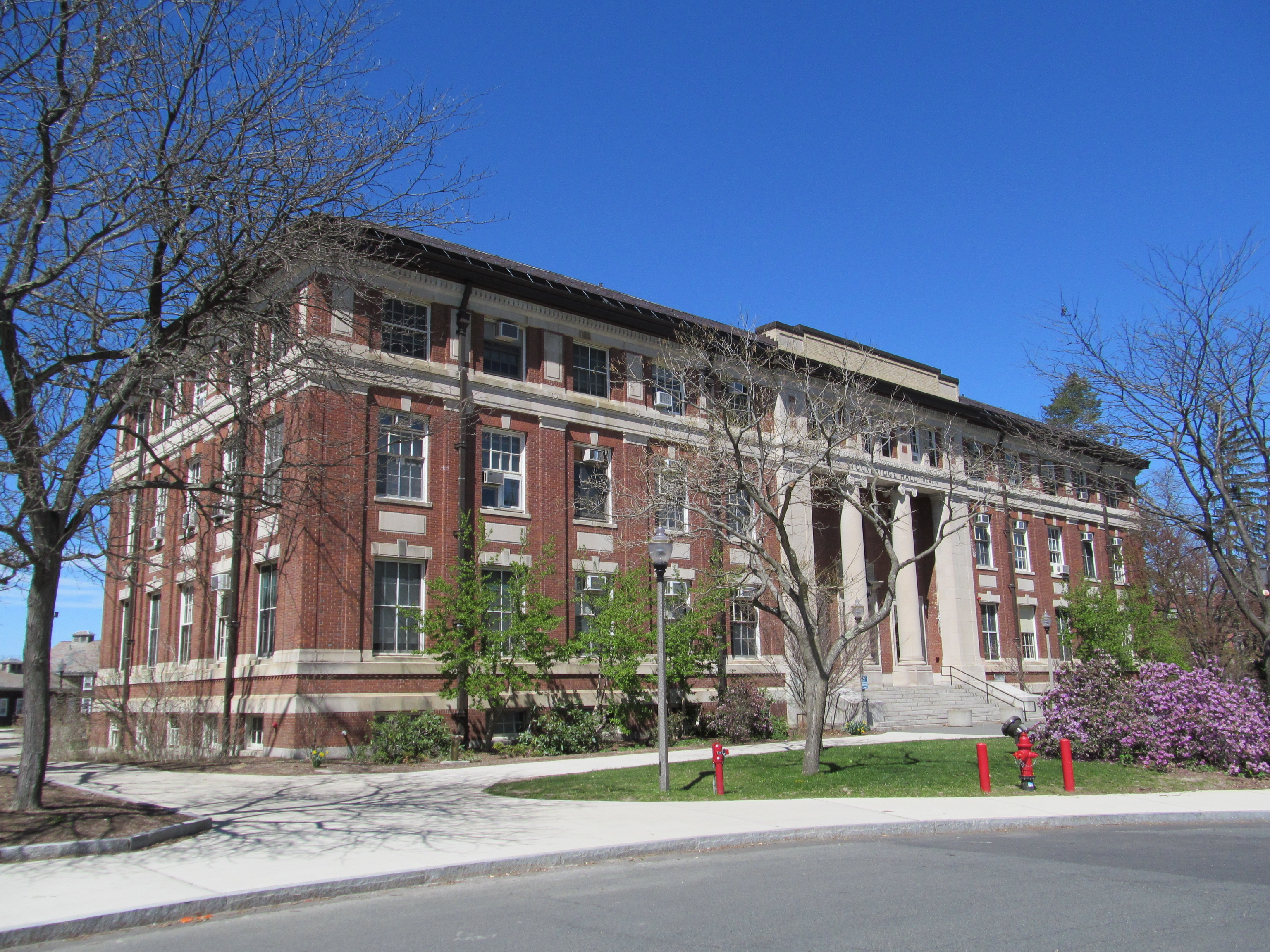 Stockbridge Hall, University of Massachusetts Amherst, Amherst Massachusetts